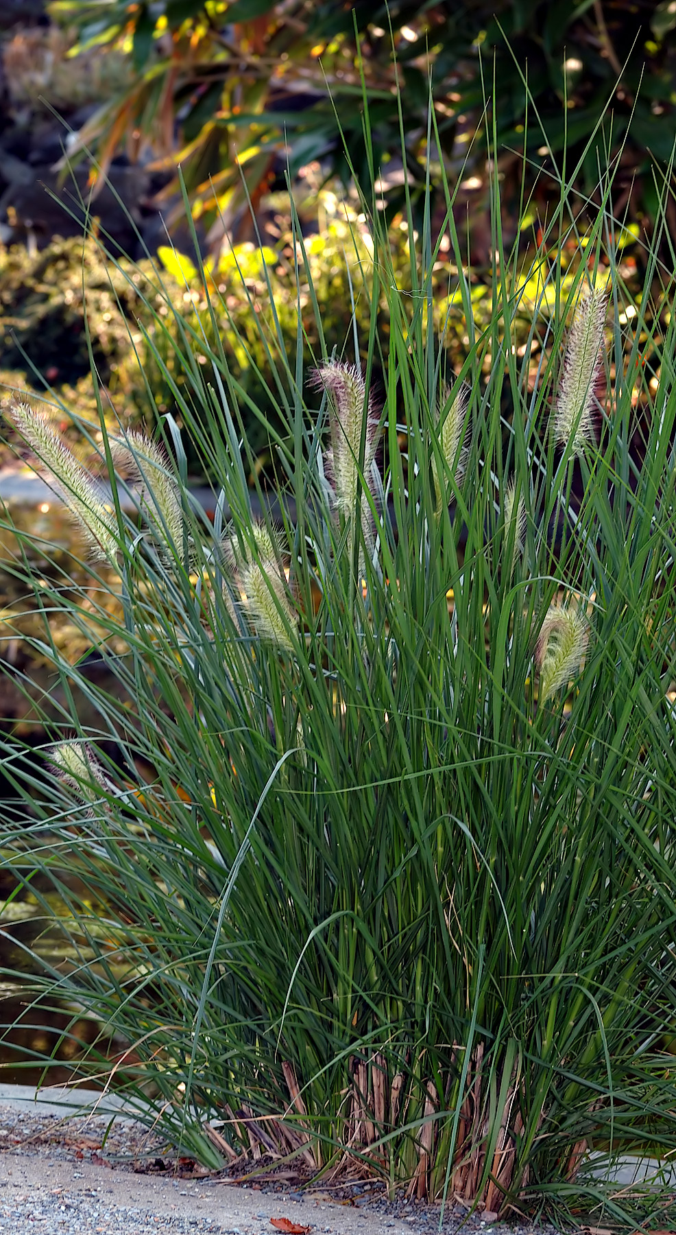 This image shows Chinese Fountain Grass (Pennisetum alopecuroides).